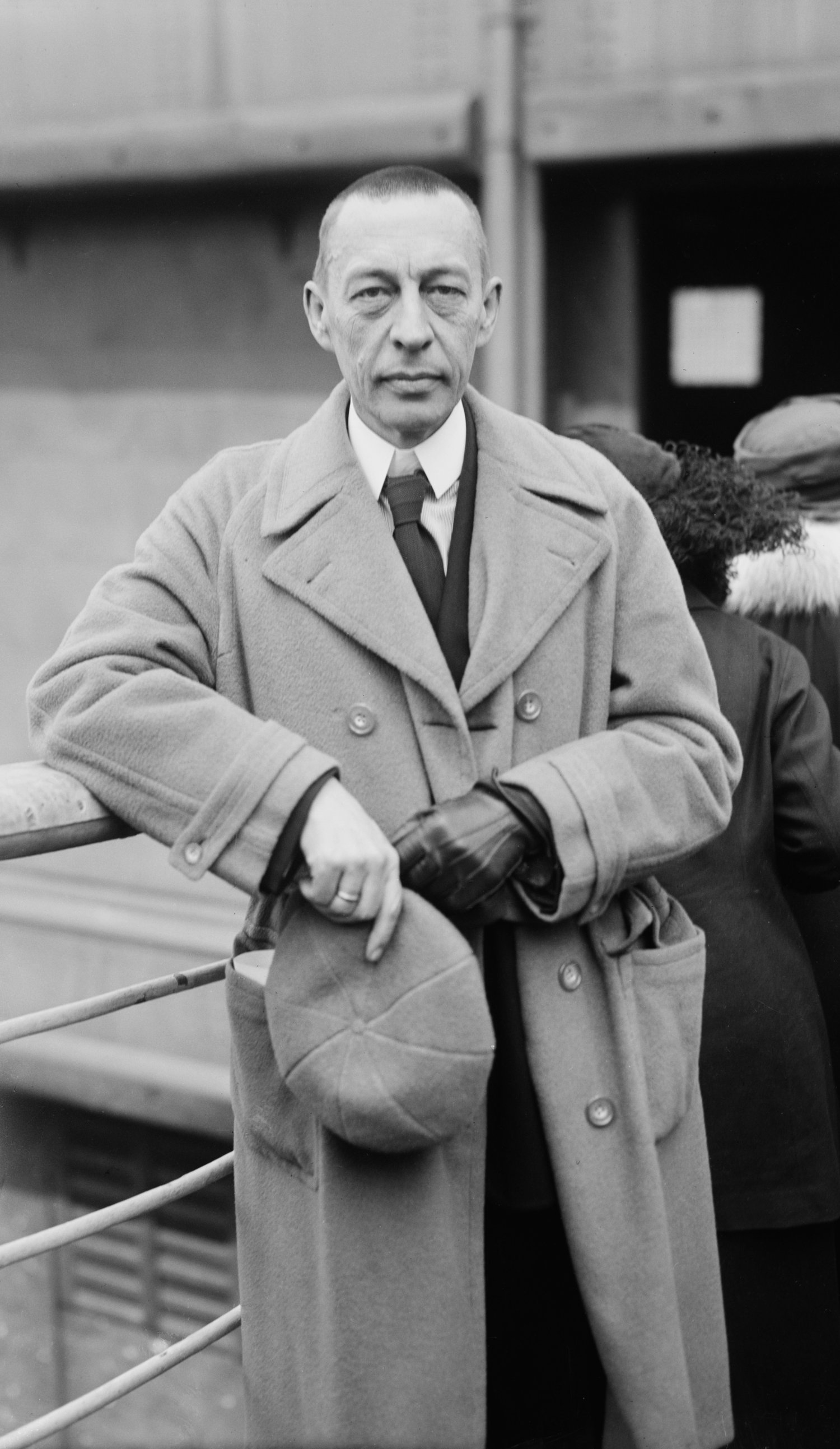 Sergei Rachmaninoff, date of photo not recorded.